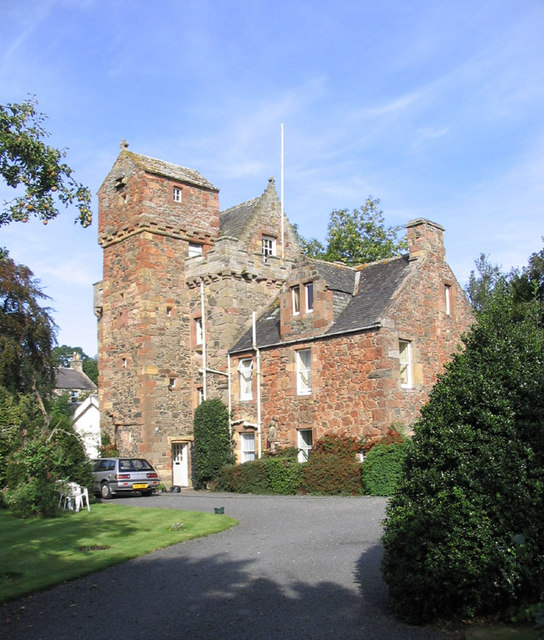 Darnick Tower. This occupied house is built of red sandstone and carries the bull's head motif of the Heiton family. Built in 1595, it was restored in 1865 and a 2 storey east extension added in 1869. Fisher's Tower, the roofless shell remains of the second tower of Darnick (of 16th century origin), are within the grounds of Darnick Tower. (Source: Borders and Berwick by Charles Alexander Strang)